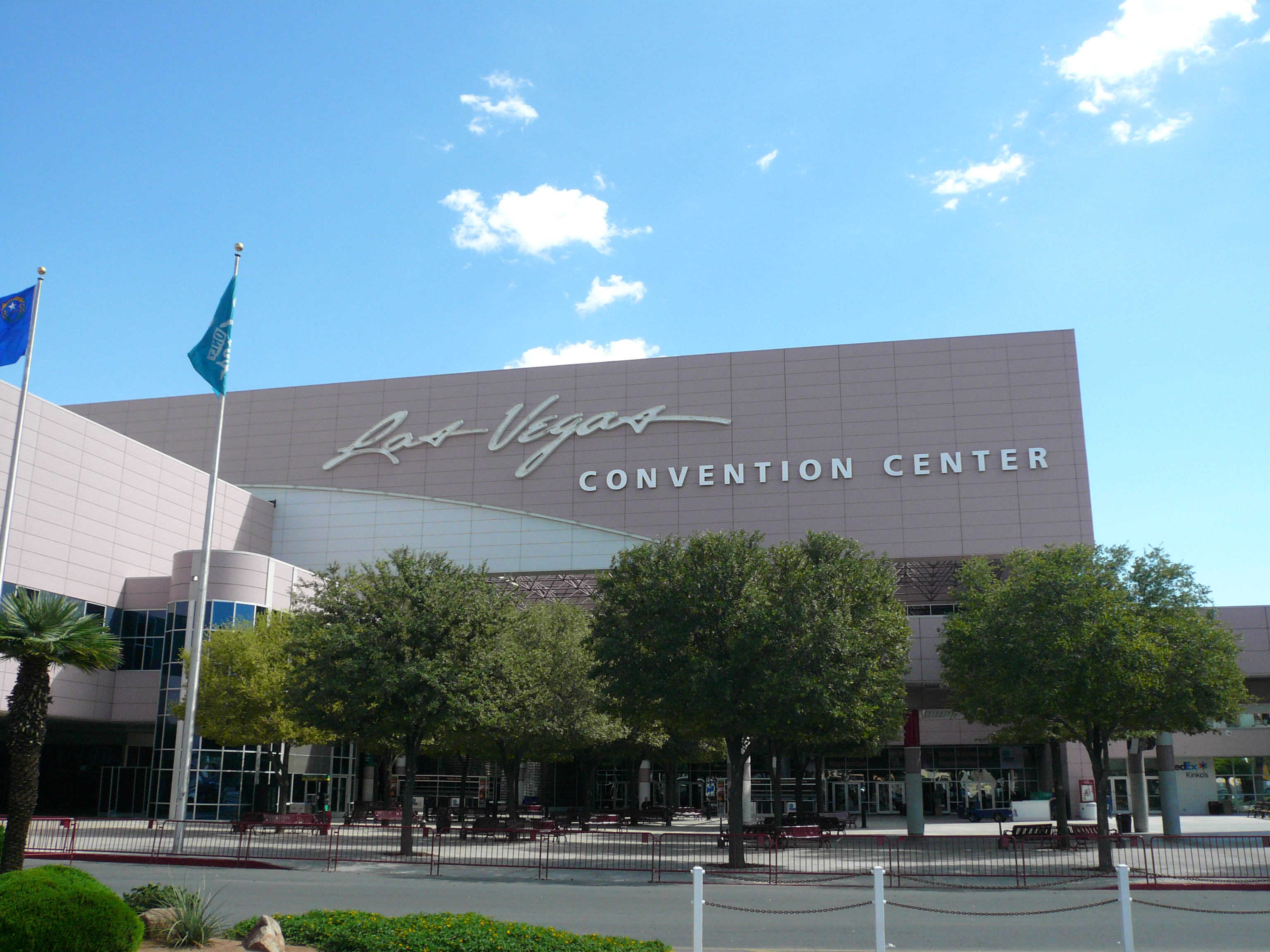 Image of outside of Las Vegas Convention Center